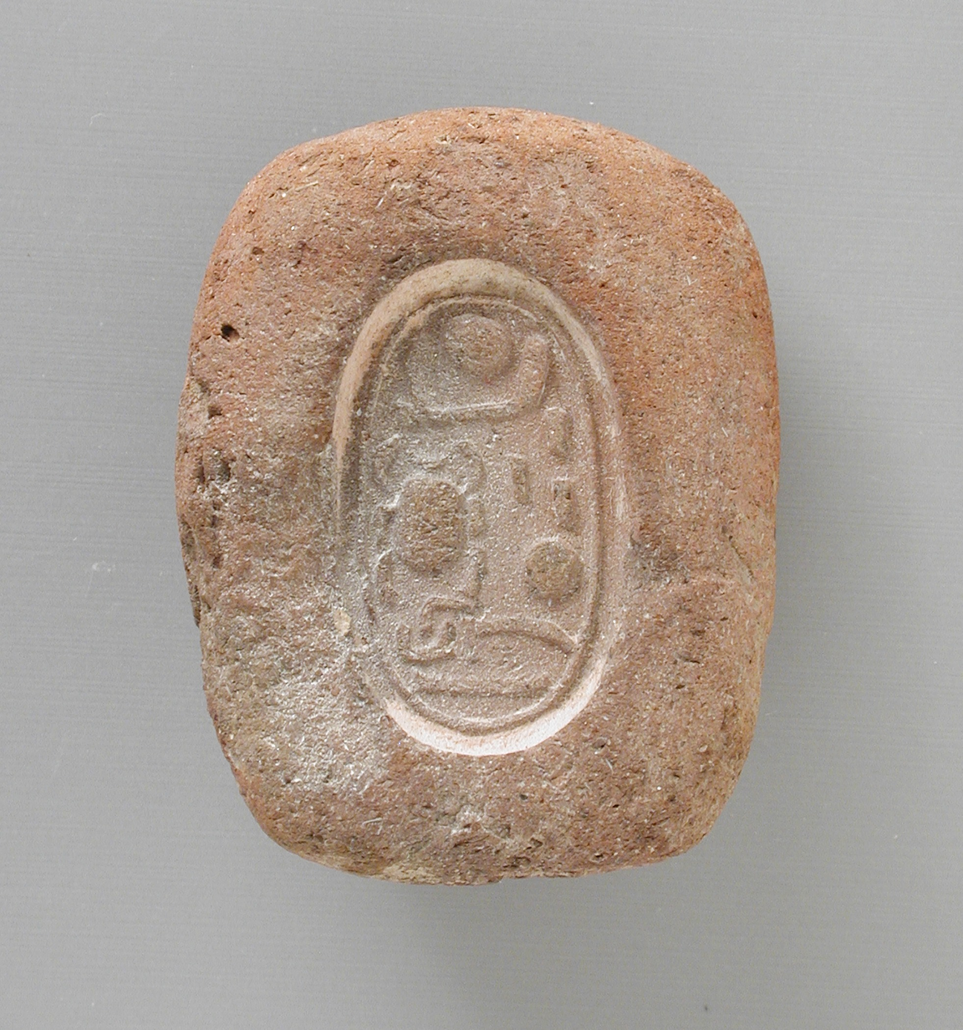 Tools and Equipment; molds Terracotta Overall: 1 3/8 x 1 1/16 in. (3.49 x 2.7 cm); Imprint: 3/4 x 1/2 in. (1.91 x 1.27 cm) Gift of Jerome F. Snyder (M.80.202.361) Egyptian Art